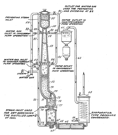 The image is from a USPTO document, a government publication, from 1934. From U.S. Patent #1,958,918.